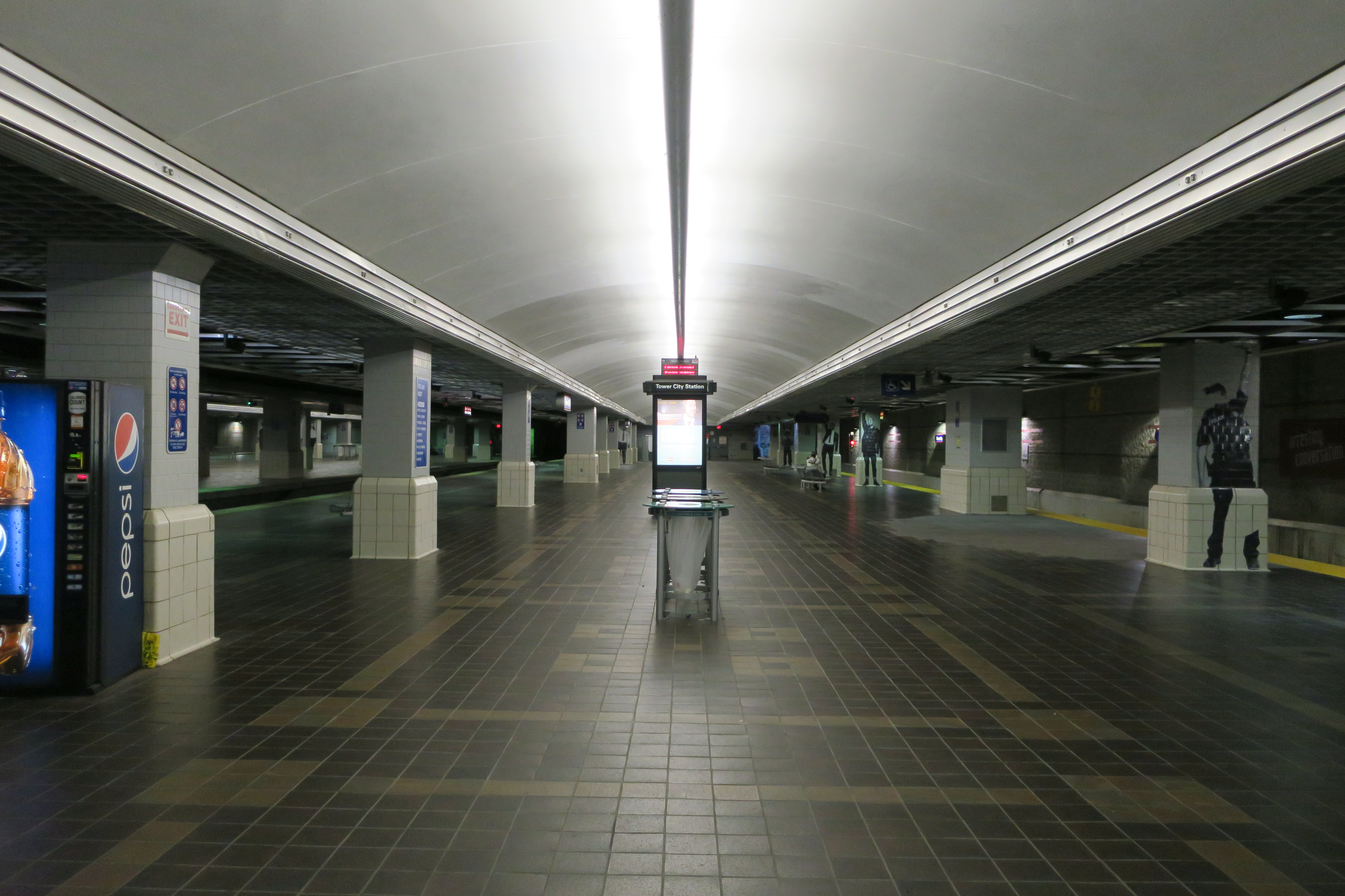 The westbound Red Line platform at Tower City–Public Square, taken from near the entrance to the station. The stub track is to the left and the main westbound track is to the right.